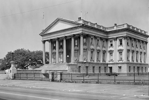 U.S. Customs House, 200 East Bay Street, Charleston (Charleston County, South Carolina) (cropped)